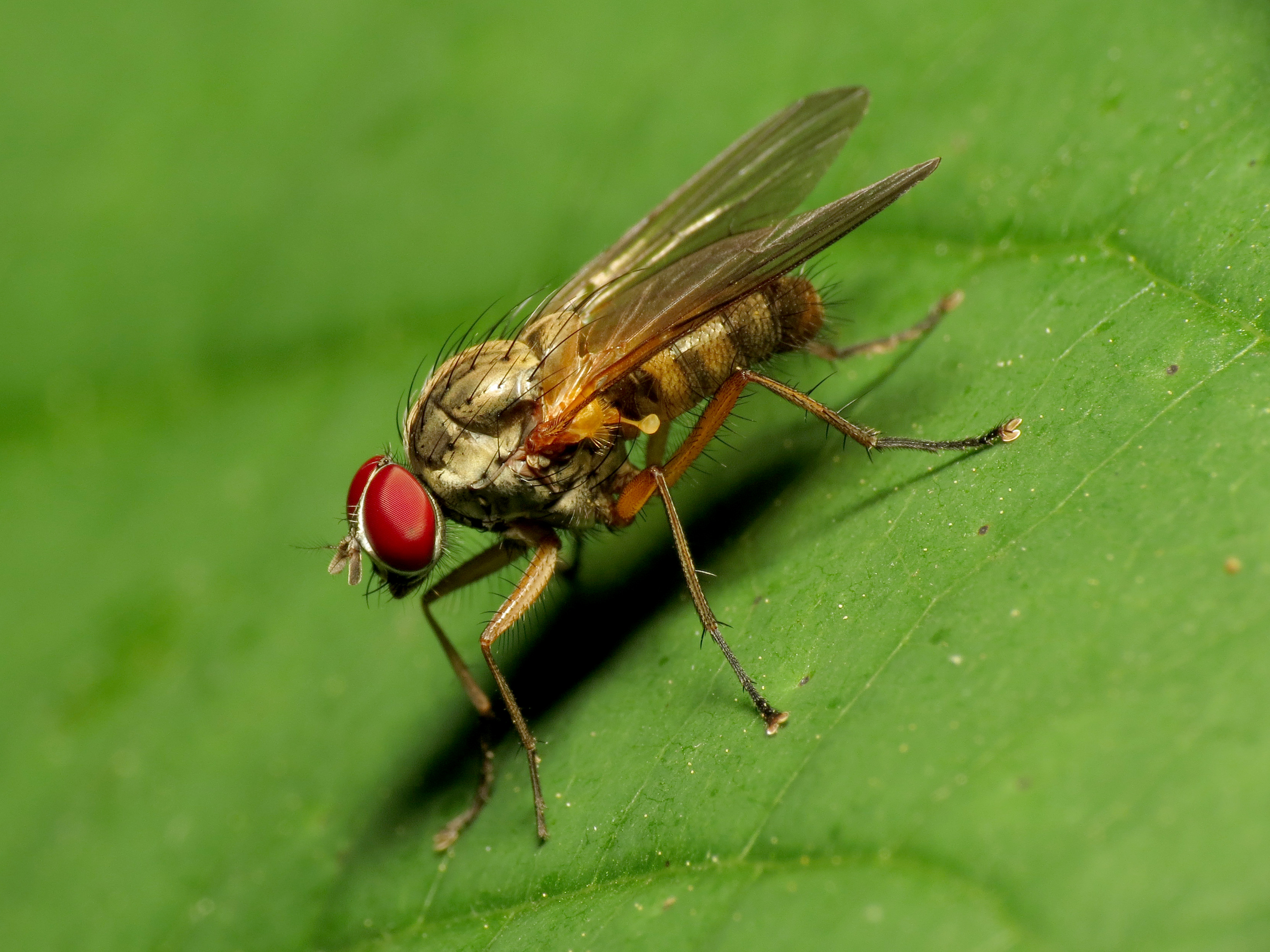 Hylemya alcathoe male. Rock Creek Park, Washington, DC, USA.